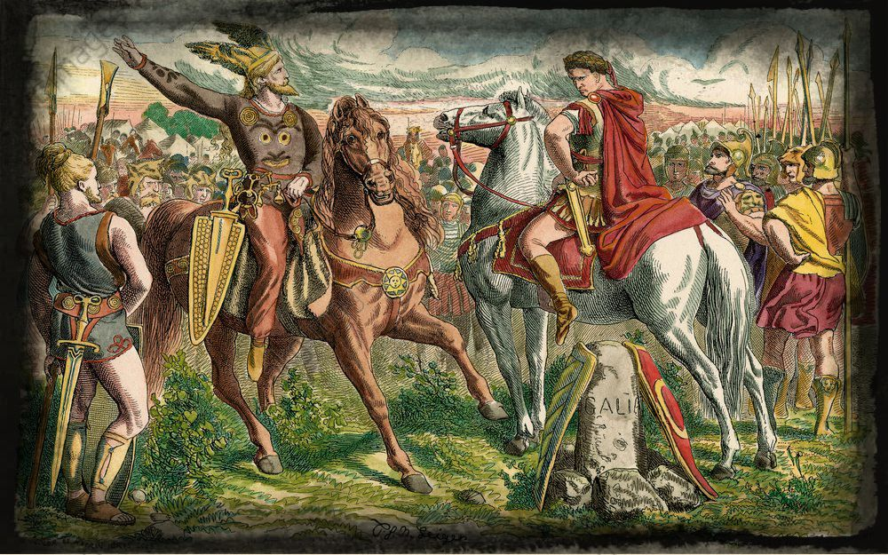 Caesar and Ariovistus (meeting before the battle). Woodcut, 1873, by Johann Nepomuk Geiger (1805–1880). From: W. Zimmermann, Geschichte des dt. Volkes, volume 1, Stuttgart 1873. Berlin, private collection.